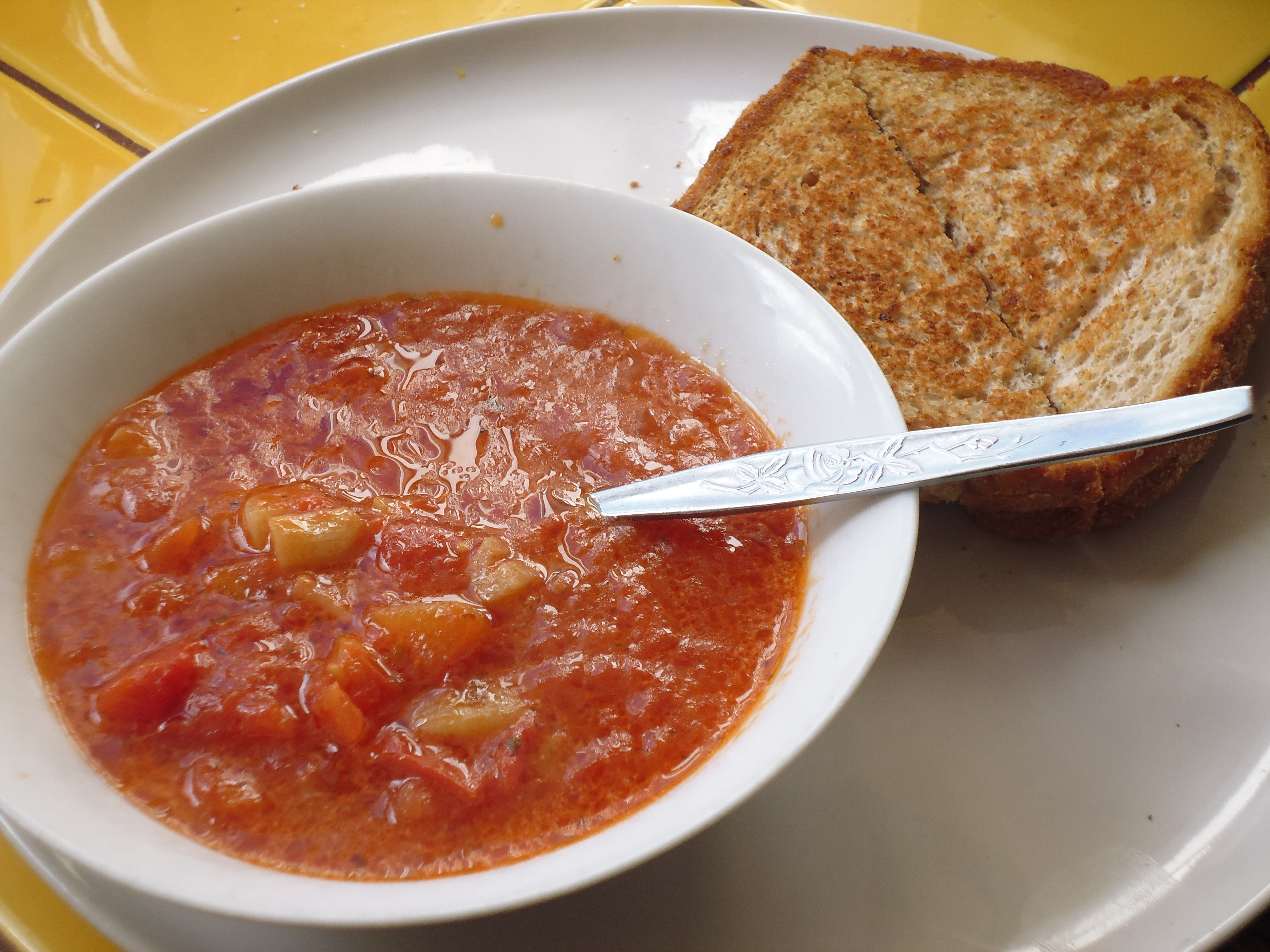 My lunch, tomato soup and grilled cheese sandwich.